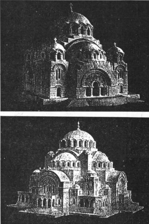 Gips Modelle Deroko Nesorovic Hram Svetog Save